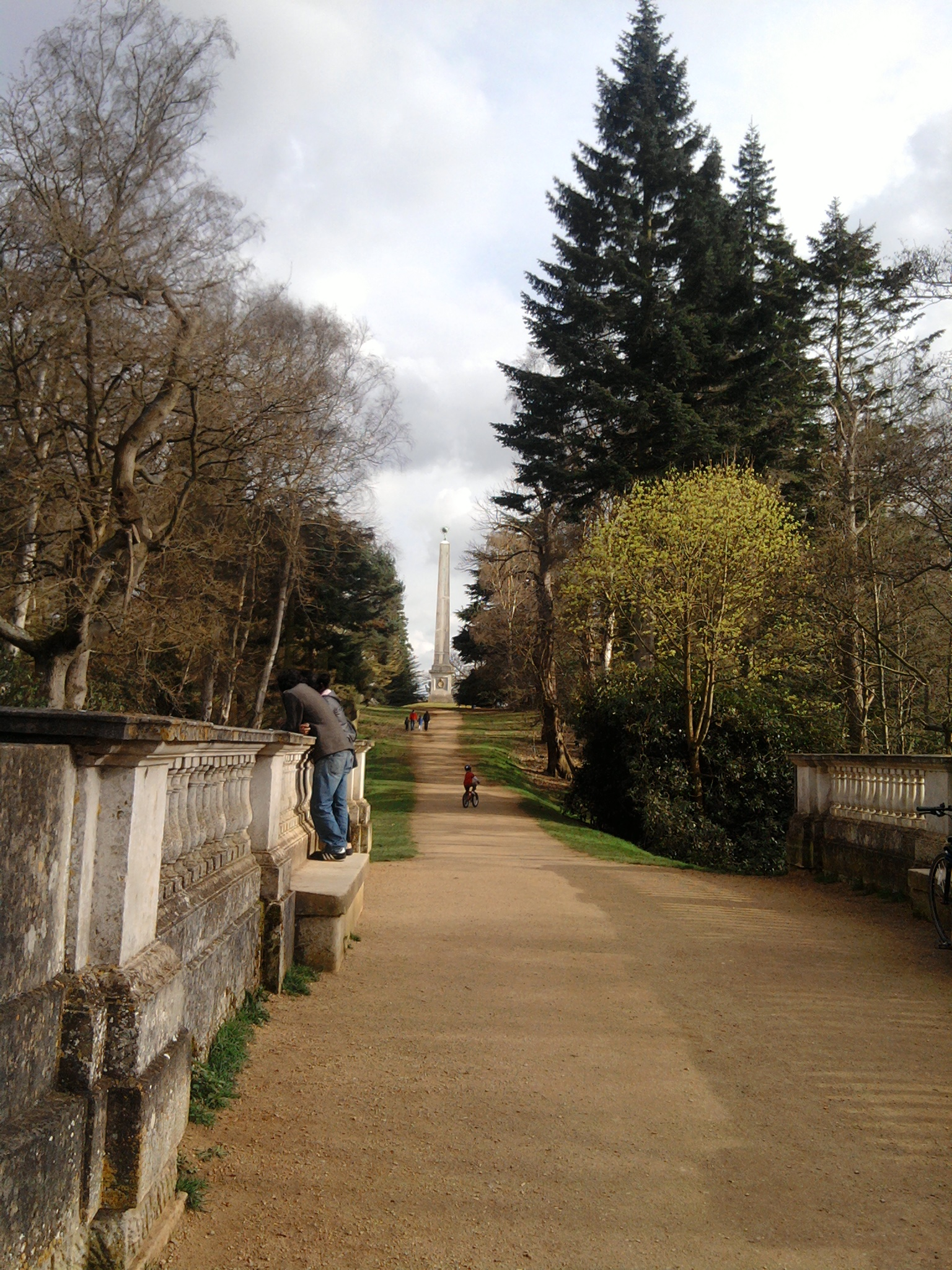 Duke of Cumberland Obelisk in Great Windsor Park